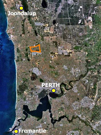 Northern suburbs of Perth, Western Australia from space, with the suburb of Hamersley marked in orange, and city centres marked for reference.